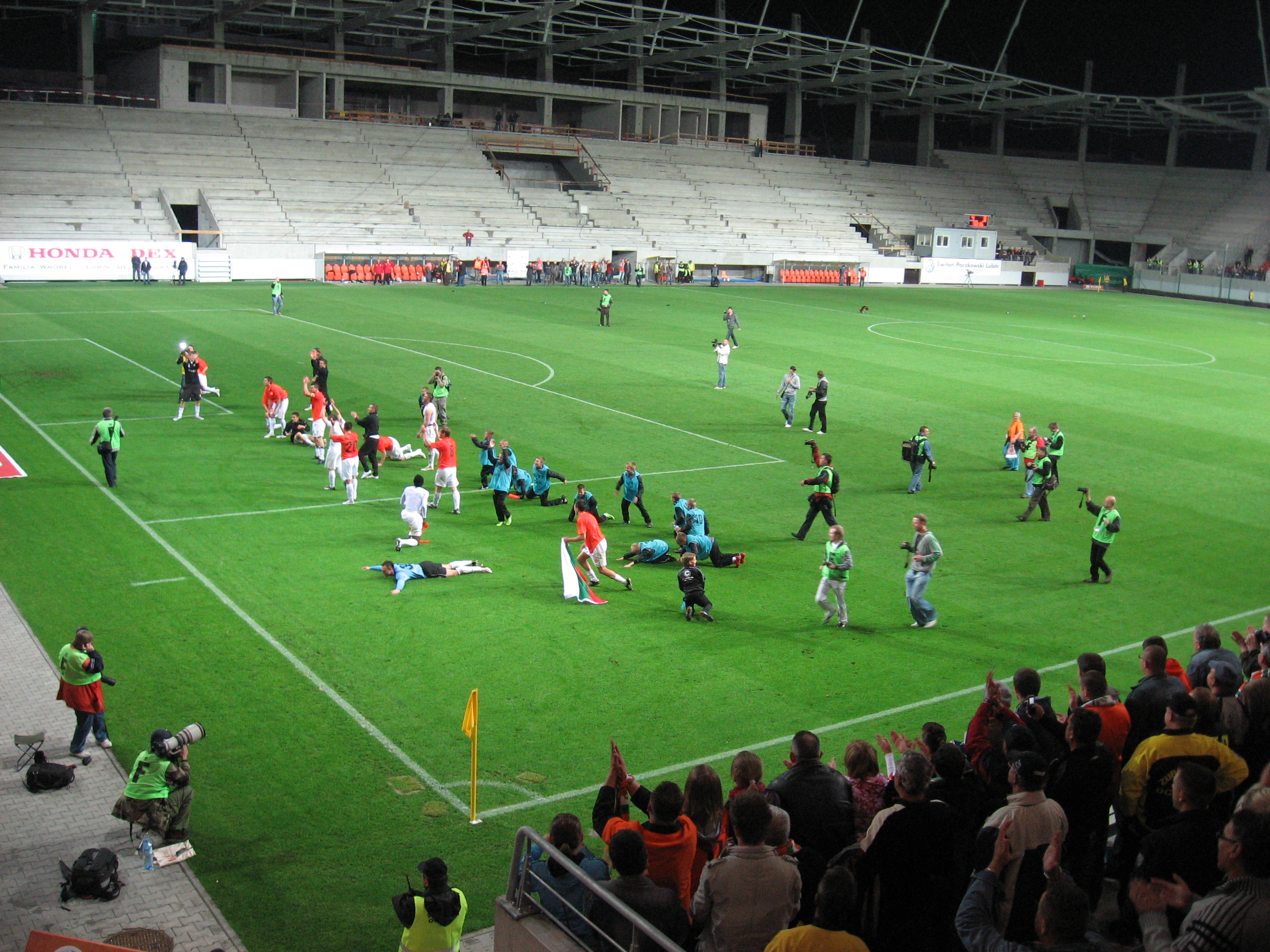 Footballers KGHM Zagłębie Lubin are celebrating promotion to Ekstraklasa after match against Korona Kielce.